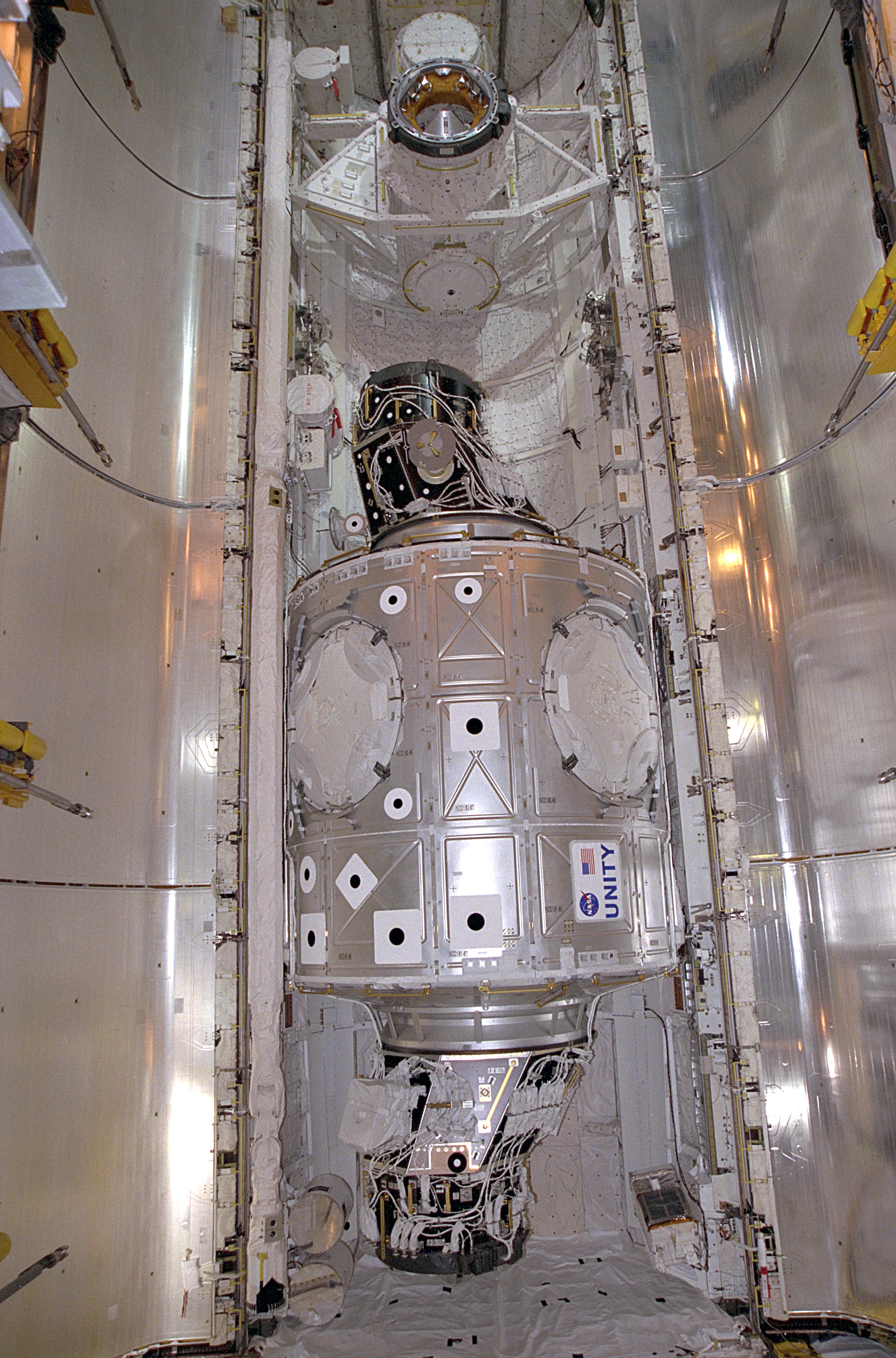 The Unity module inside the shuttle payload bay of Space Shuttle Endeavour.Endeavour is scheduled to fly on mission STS-88, the first Space Shuttle flight for the assembly of the International Space Station, on December 3, 1998. The primary payload on the mission is the Unity connecting module, which will be mated to the Russian-built Zarya Control Module already in orbit at that time.